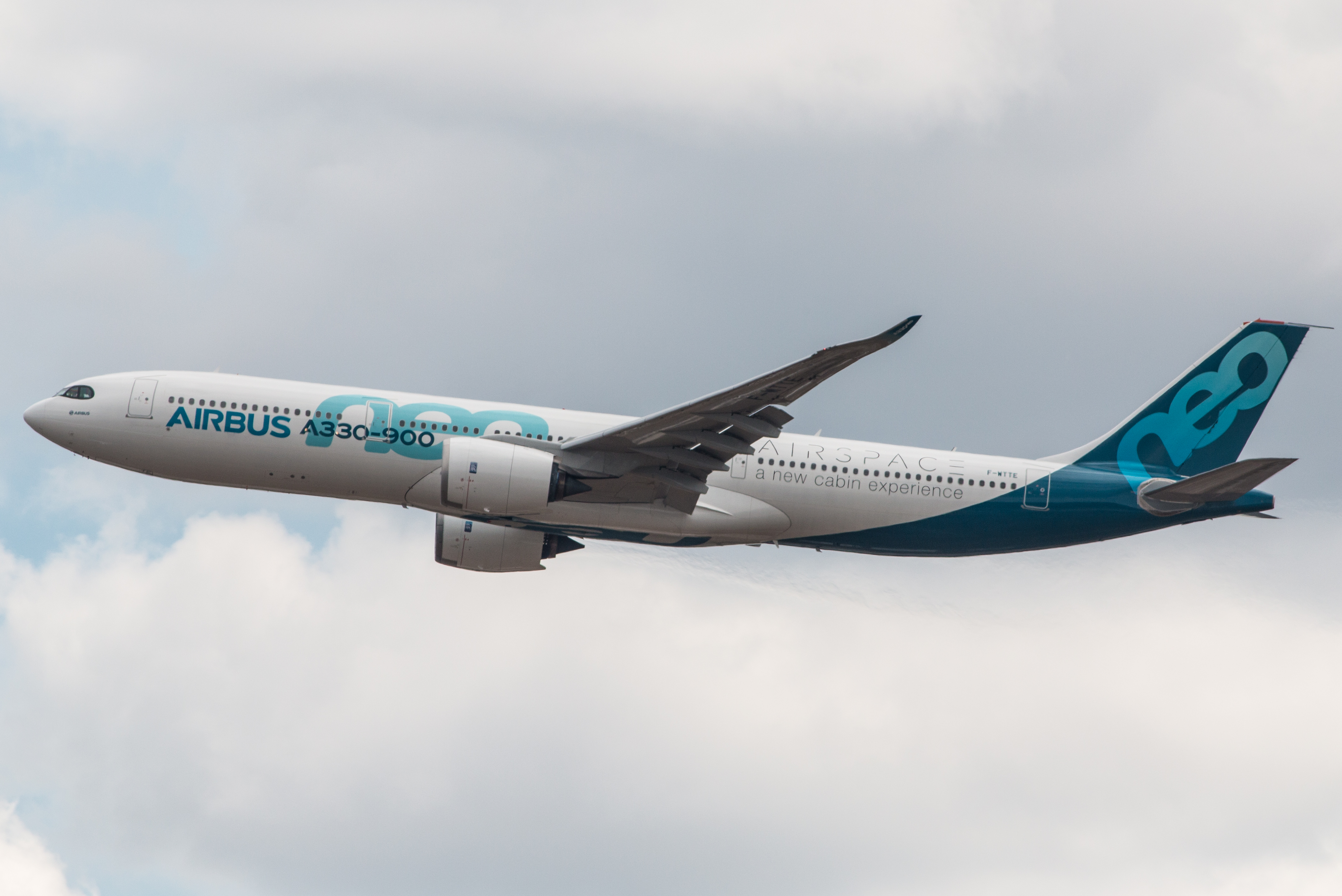 Farnborough International Airshow 2018, Hampshire